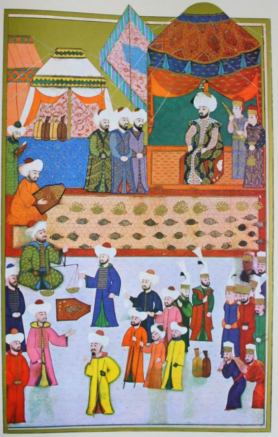 Ottoman Sultan Mehmed I preparing the annual package to be sent to the two holy mosques, and distributing some money between the Soldiers.